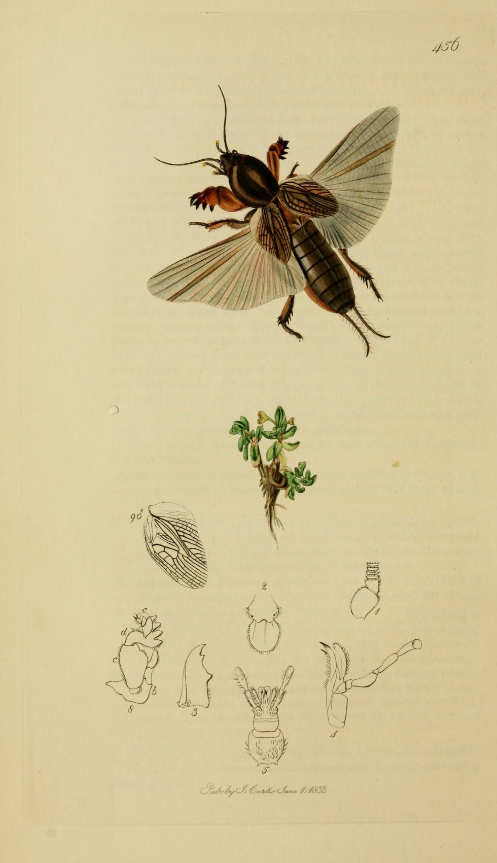 An illustration from British Entomology by John Curtis.Gryllotalpa vulgaris Valid name Gryllotalpa gryllotalpa the Mole-cricket